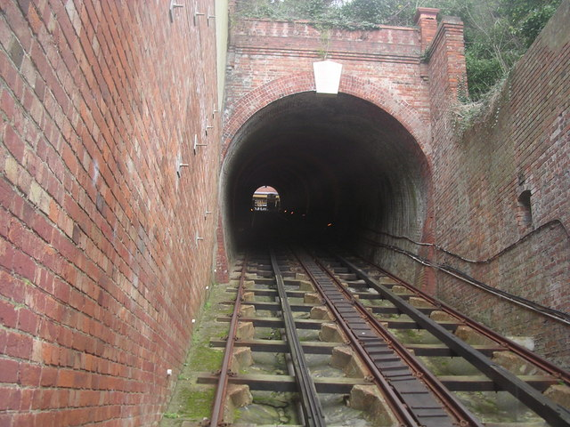 The West Hill Cliff Railway at Hasting, East Sussex, England. For more information see the Wikipedia article West Hill Cliff Railway .